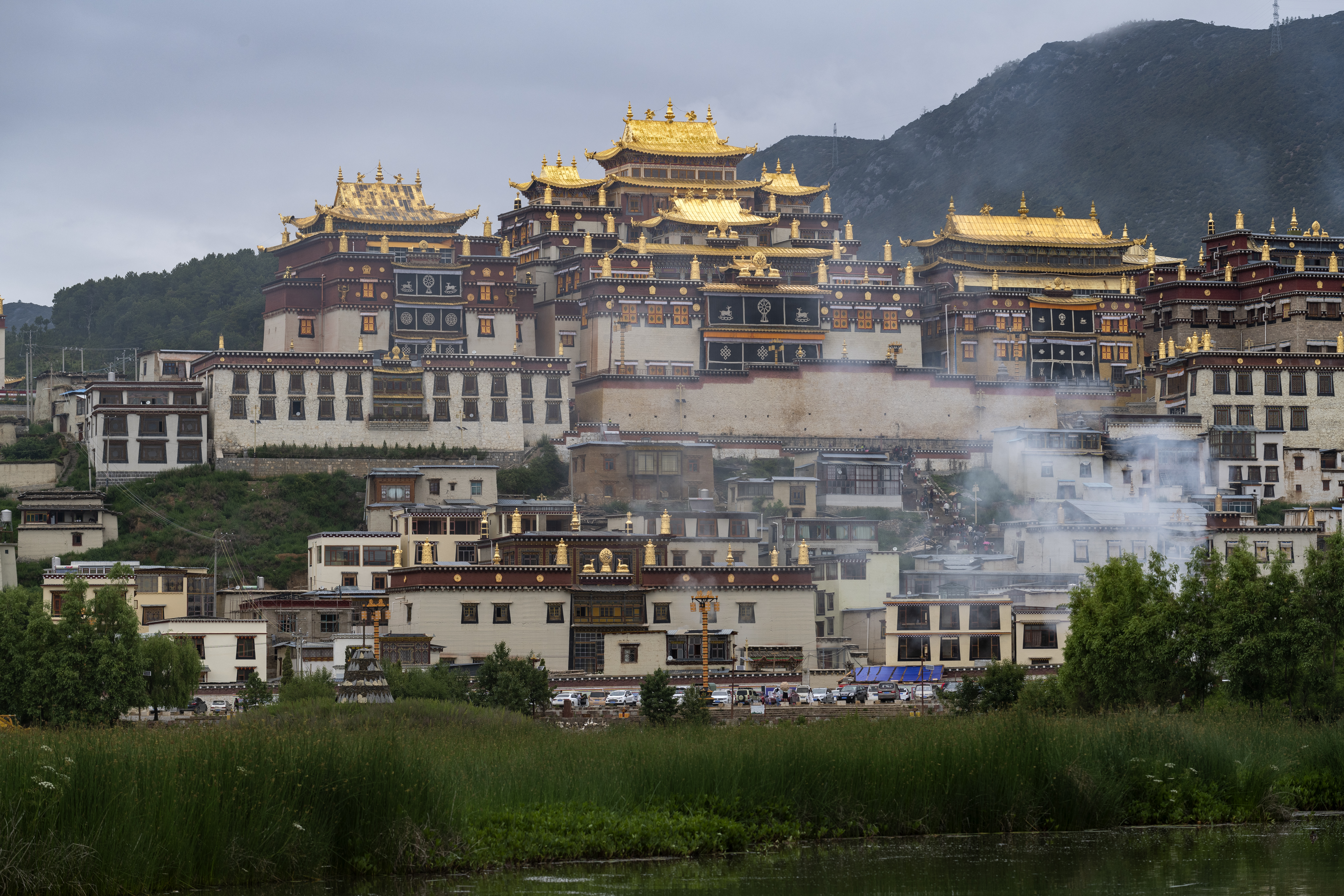 songzanlin monastery yunnan